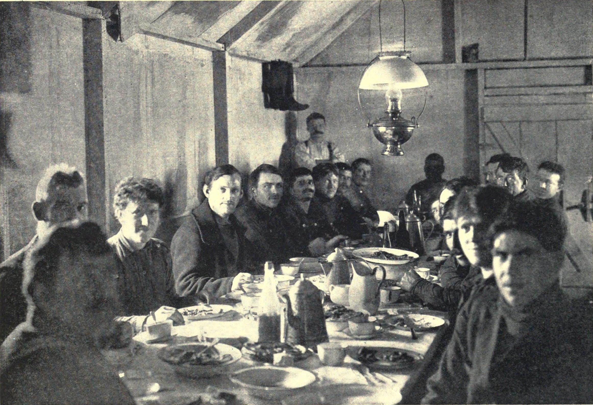 Captioned "In the miners boarding house" Miners around a table at the end of the meal, which looks to have been a pretty good spread. Probably in the Klondike region given its placement in the book. Note the very simple and light construction of the building.